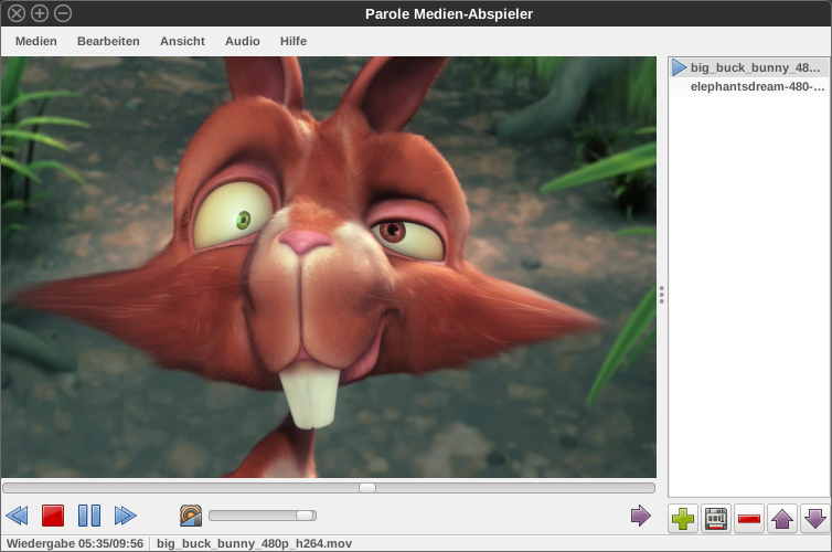 screenshot of parole watching big buck bunny